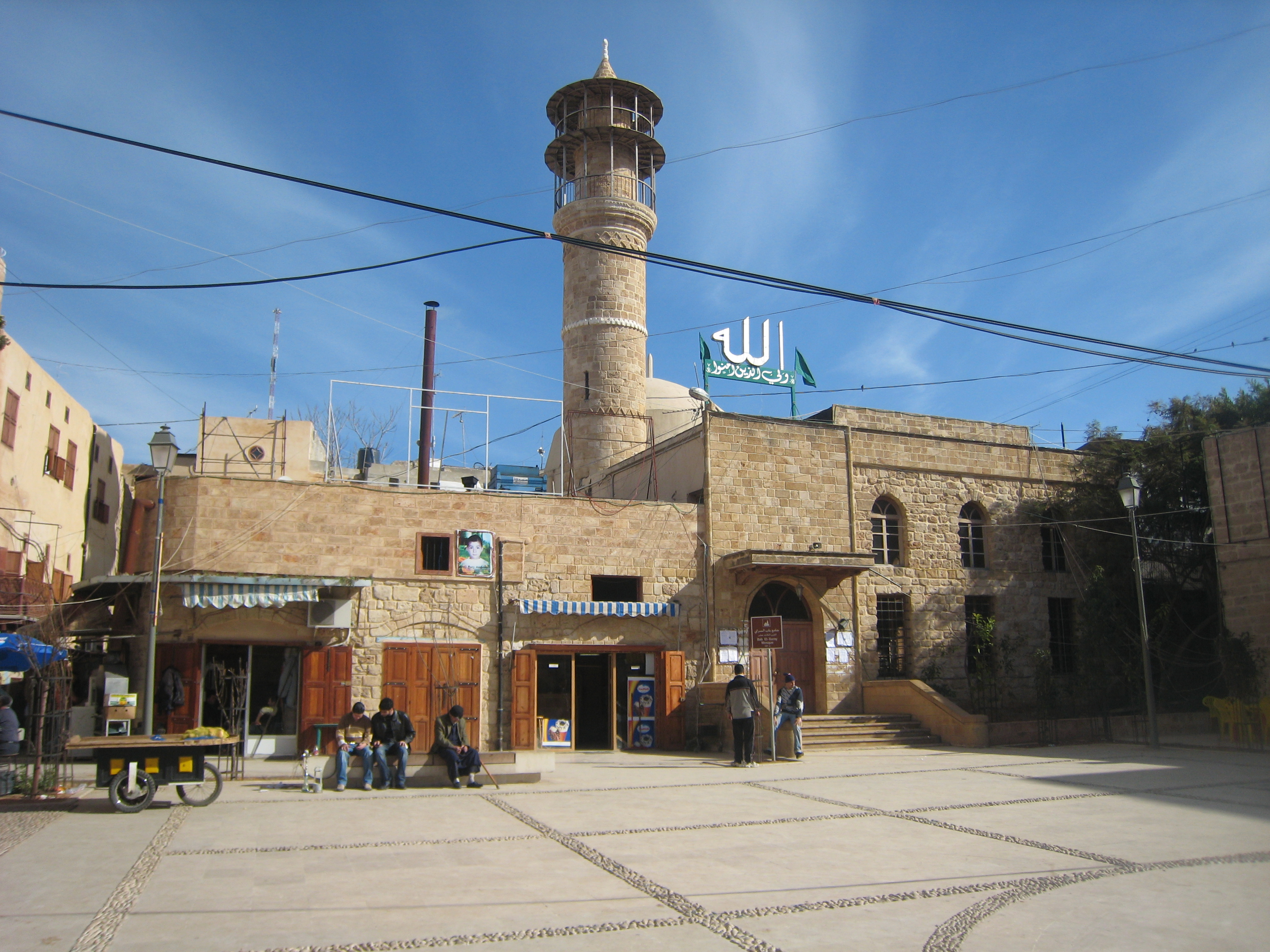 Old city in Sidon